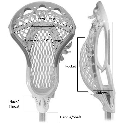 Diagram of the mens Fuse head made by the company STX no longer being made. The new version is the STX Deuce